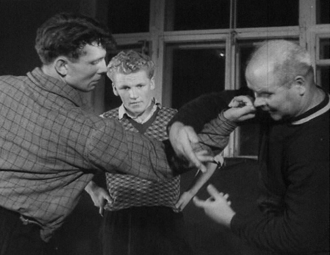 Training of protection against stabbing. Anatoly Kharlampiev and Alfred Karashchuk. 1957. Hall of sambo MEI.